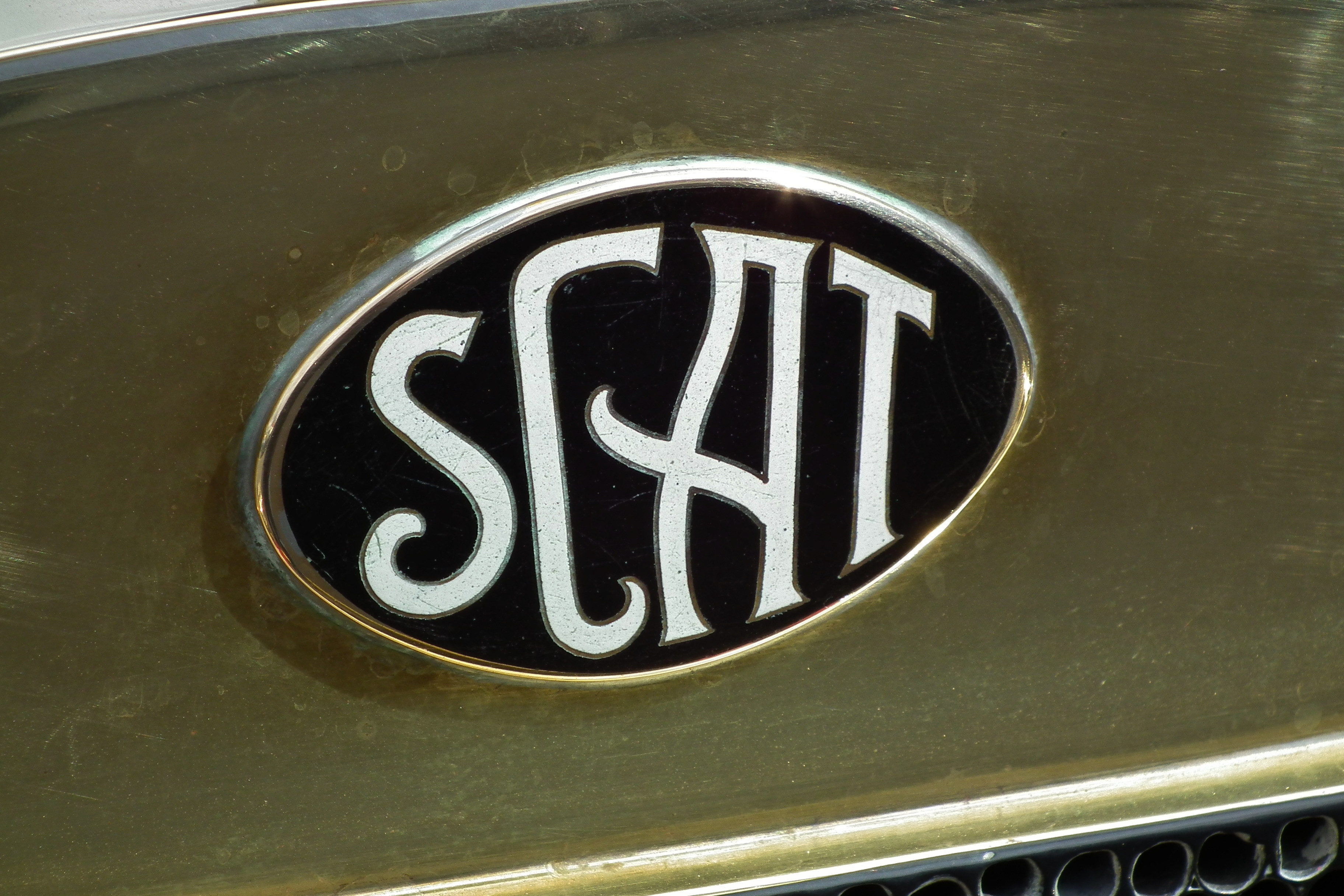 1909 SCAT 25/35 racer radiator badge. Taken at Shannon's Eastern Creek Classic 2011, held at Eastern Creek Raceway Sydney.